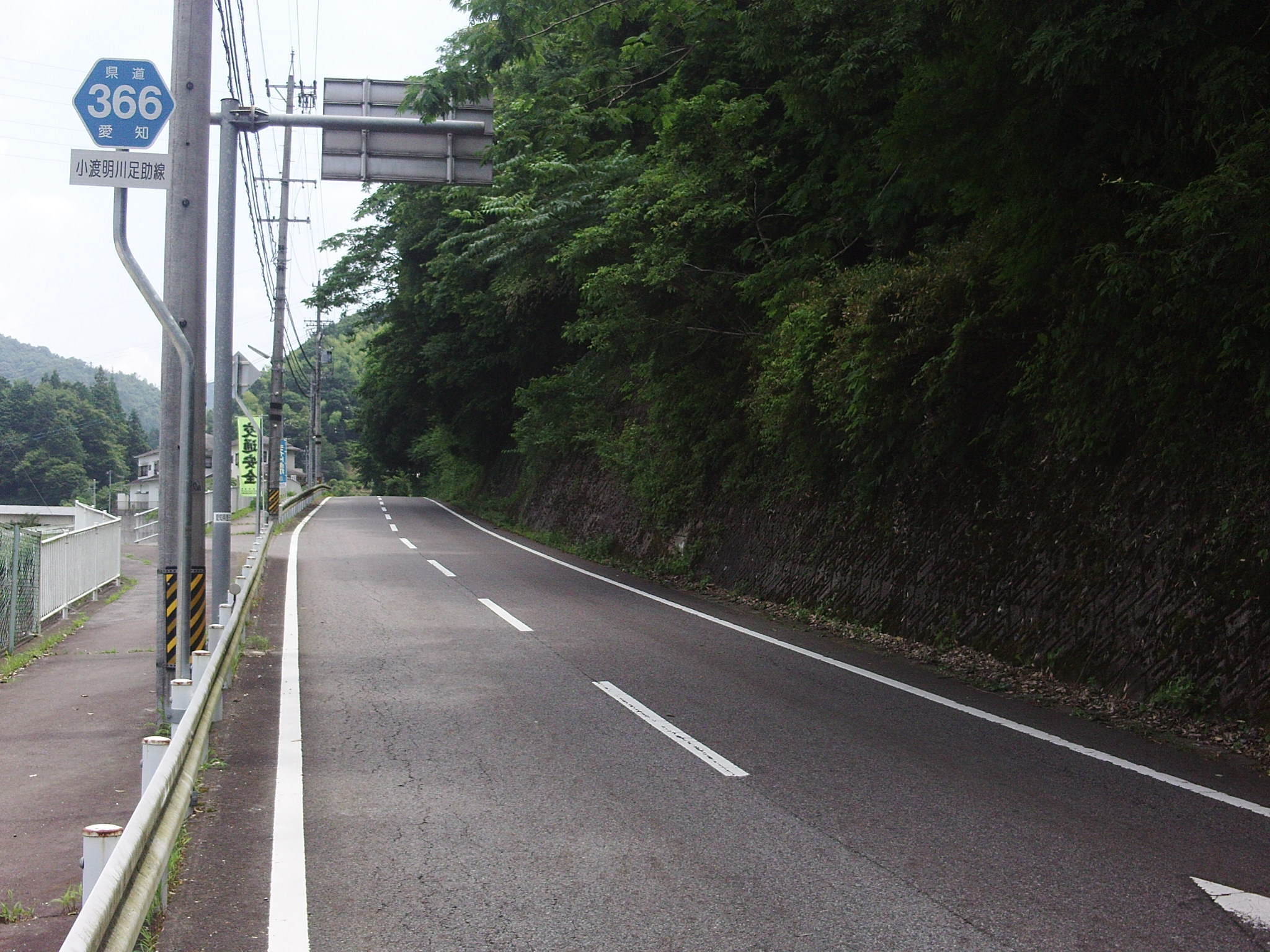 The Aichi Prefectural Road Route 366 in Kuwadawacho, Toyota City